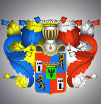 Coat of Arms of Devier family